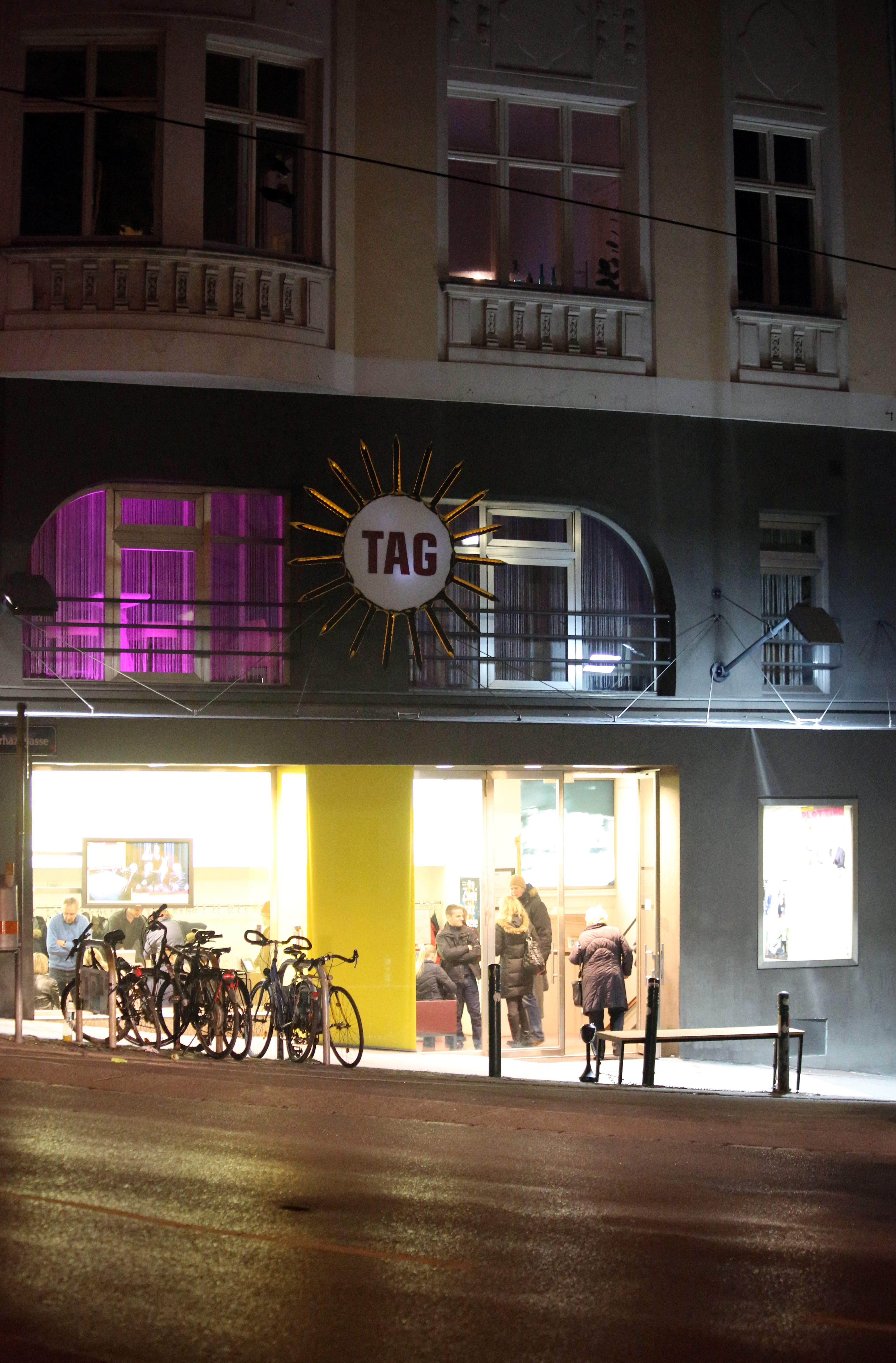 TAG - Theater an der Gumpendorfer Straße in Vienna